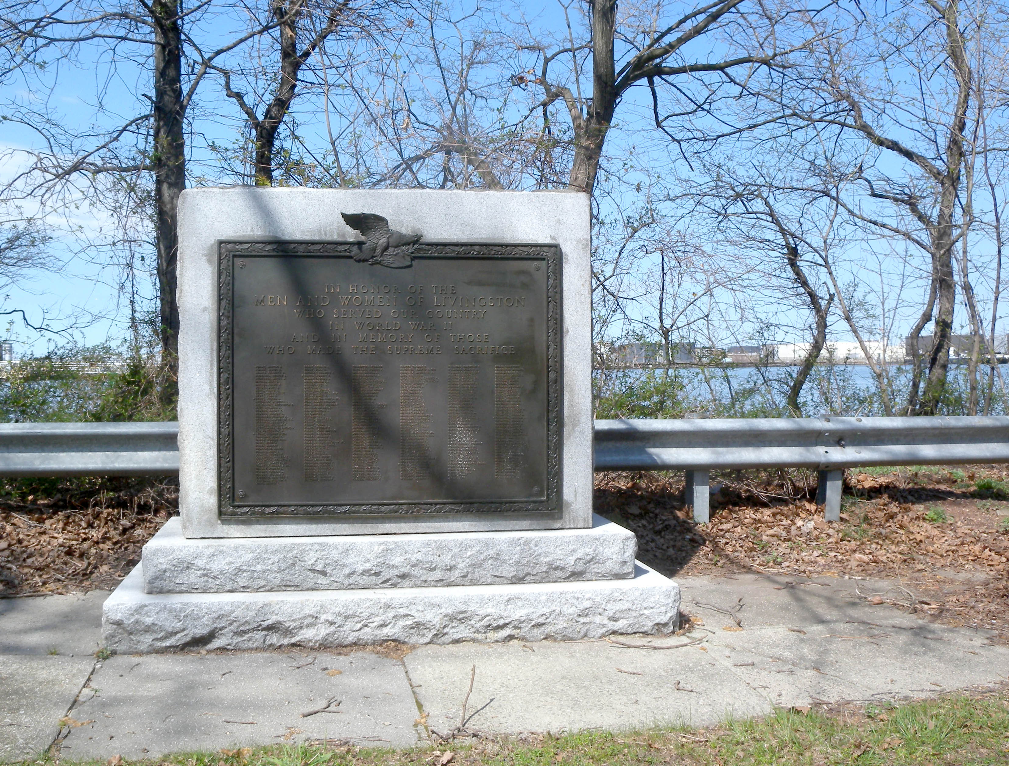 Looking north from Richmond Terrace at roadside WWII memorial in Livingston, Staten Island on a sunny midday.